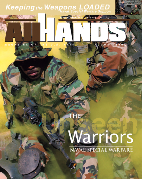 All Hands magazine photo 031115-N-6967M-021 Cover for the August 2004 issue of All Hands Magazine. (All Hands, August 2004, pg. 0) Photo by Photographer's Mate 1st Class (AW) Shane T. McCoy. (RELEASED)